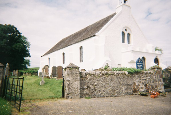 St Moluogs Cathedral, Lismore